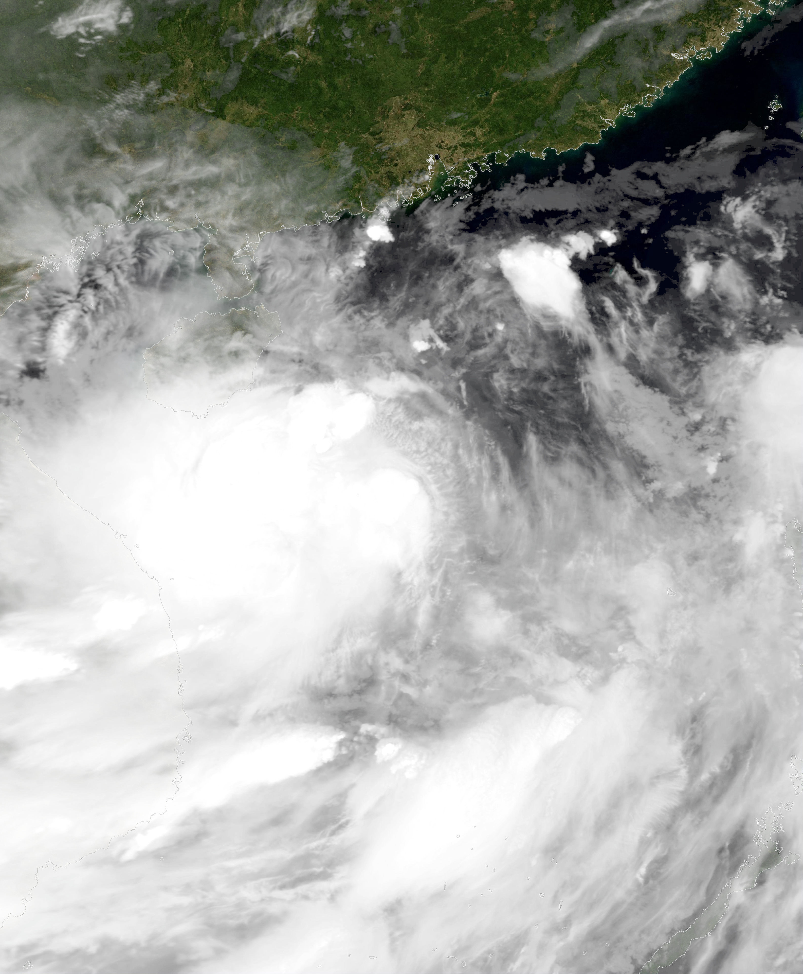 Tropical Storm Podul on August 28, 2019.